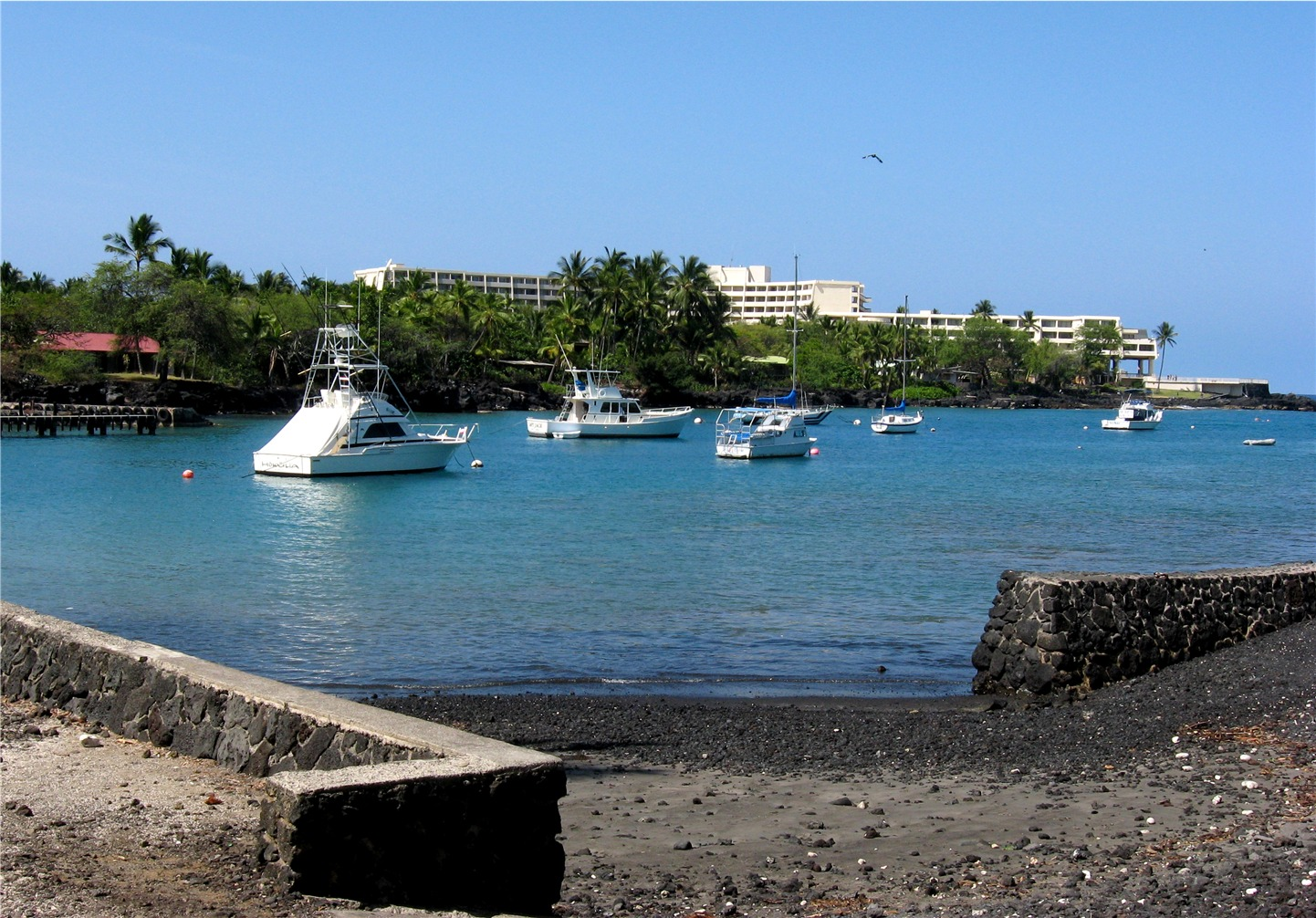 The boat ramp at Keauhou Bay, in the Kona district on the Big Island of Hawaii.